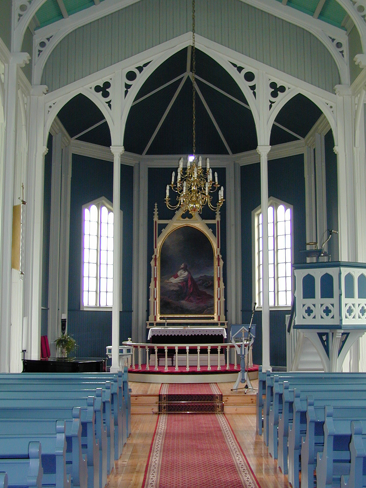 Mot koret i Voll kirke, Måndalen. Foto: Max Ingar Mørk, fra Kulturminnebilder.no.